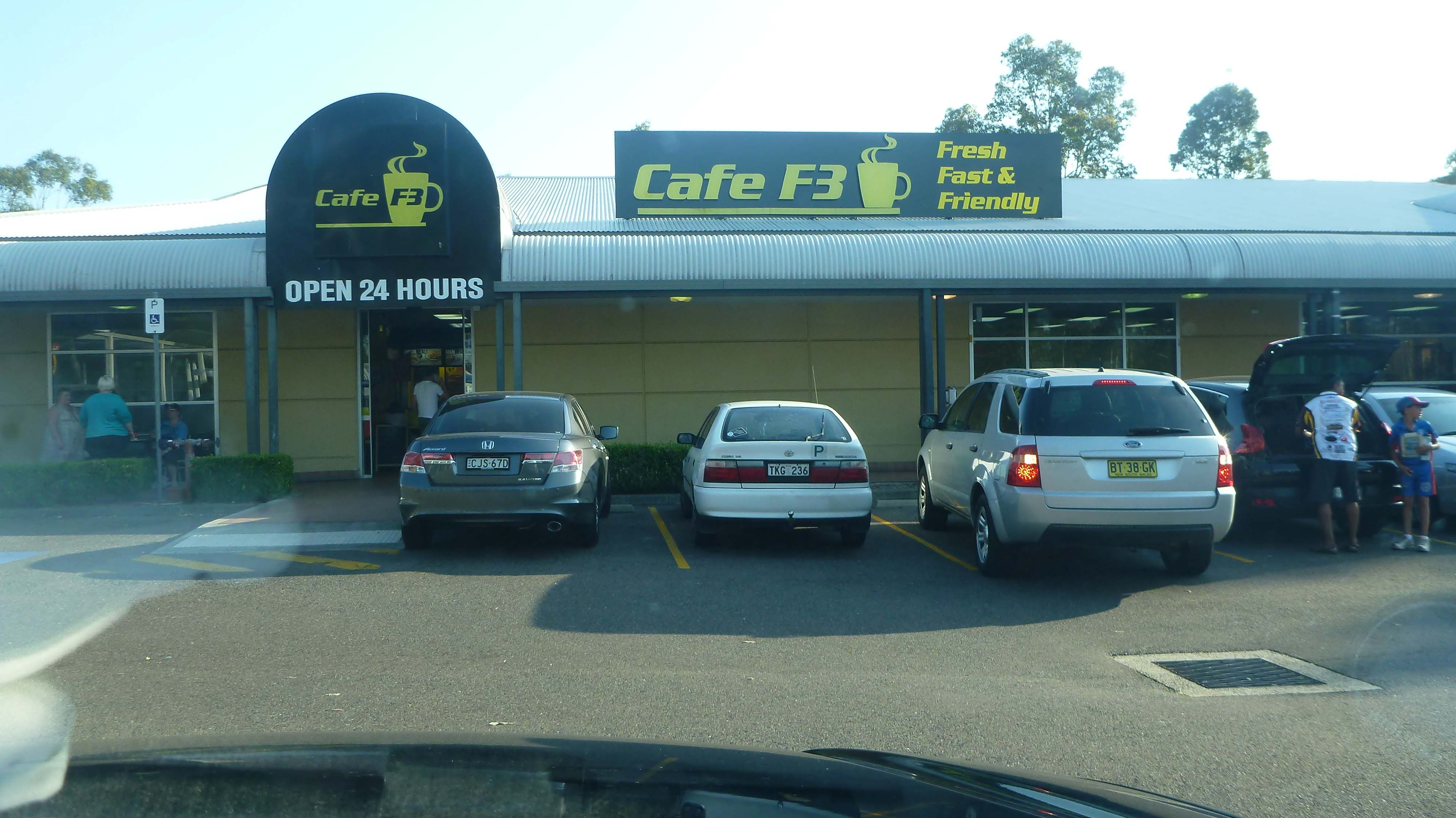 "Cafe F3" at the south bound Warnervale service centre on the Pacific Motorway in New South Wales, Australia.